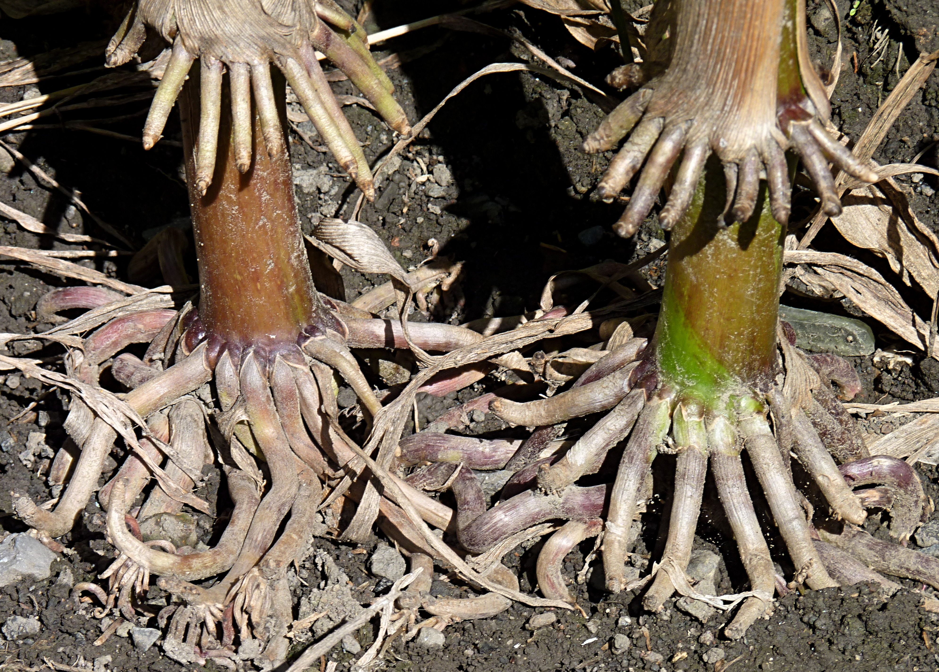 Adventitious roots (prop roots) of maize (Zea mays), picture taken in France.